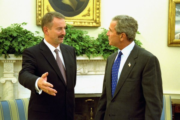 Estonian prime minister Siim Kallas meeting with United States President George W. Bush at the White House.